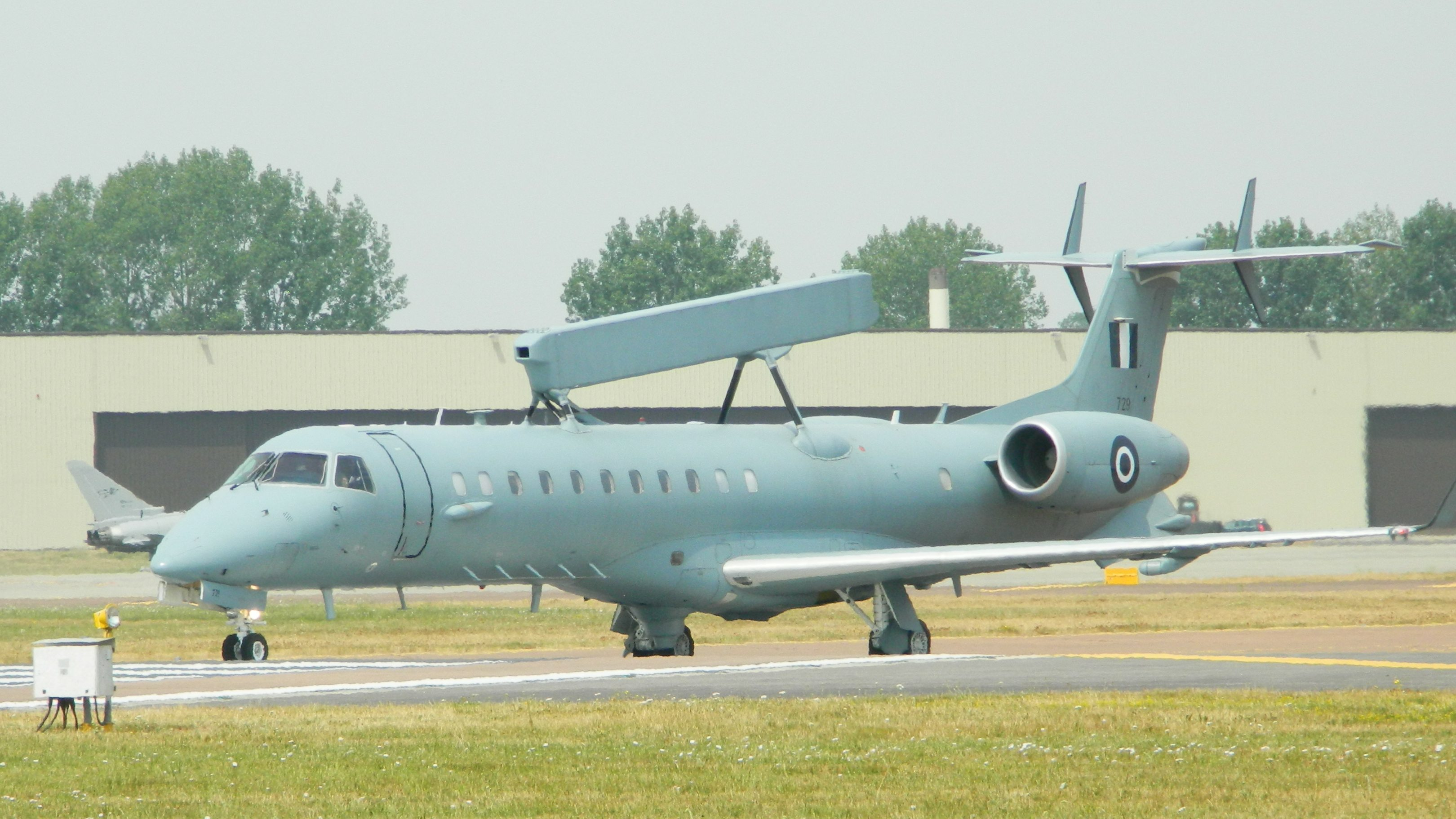 Hellenic Air Force Embraer EMB-145 airborne early warning aircraft serial number 729 departs RAF Fairford on the Royal International Air Tattoo departure day Monday 22 July 2013.